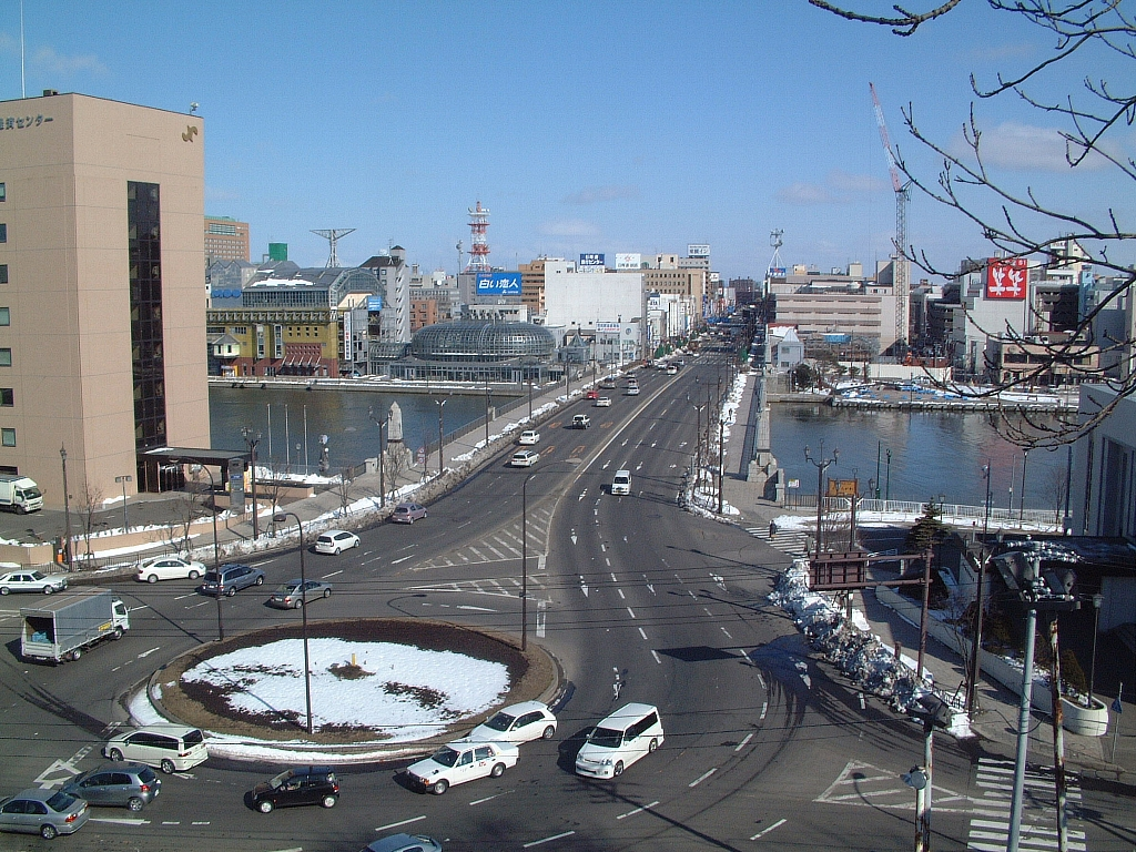 Nusamai Bridge